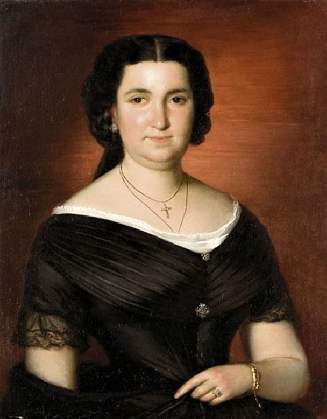 Ilka Markovits (1839–1915): Hungarian actress and opera singer